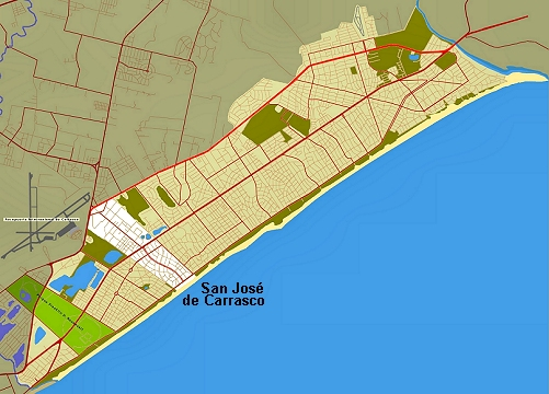 Location of San Jose de Carrasco in Ciudad de la Costa of Canelones Department, Uruguay.